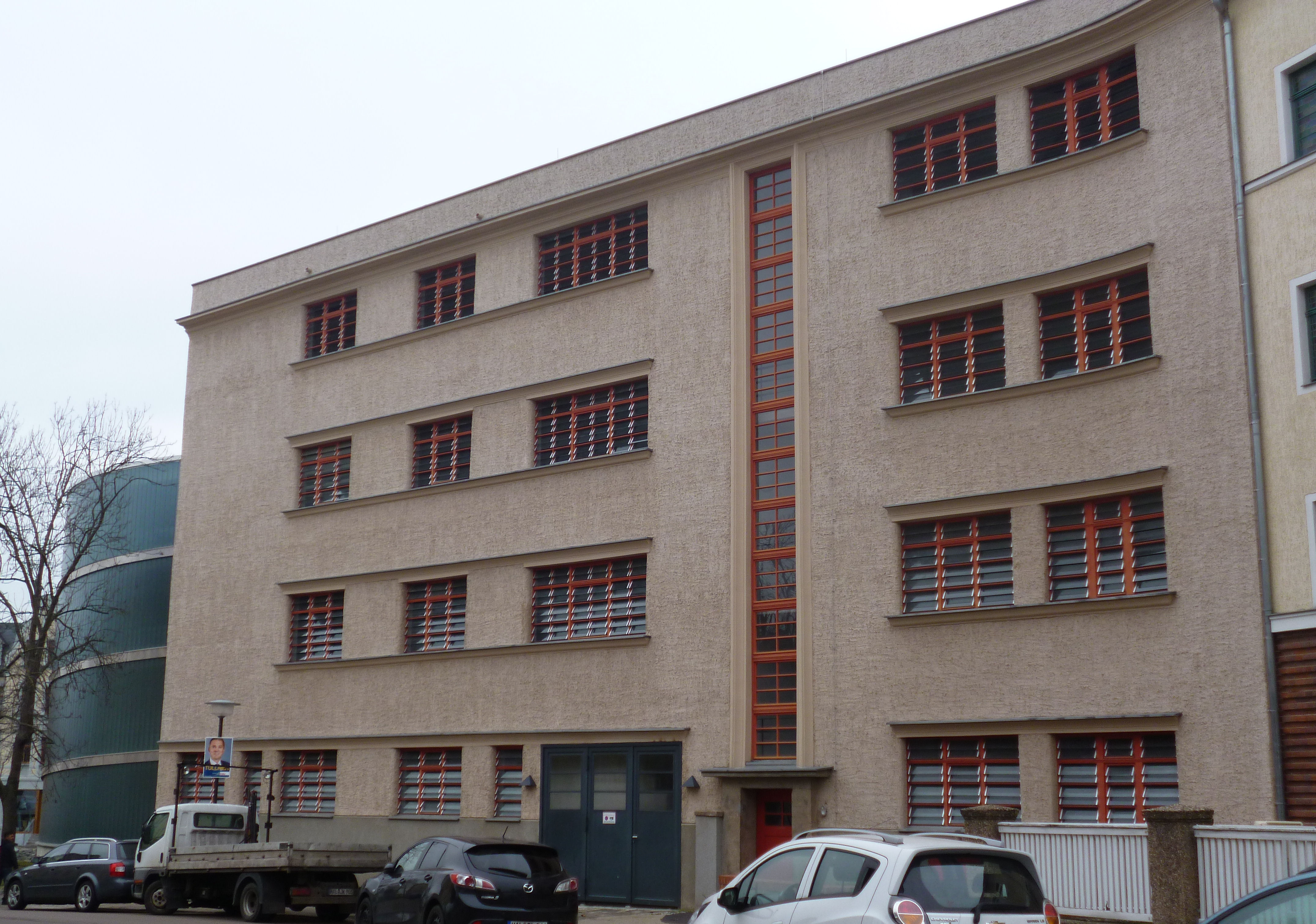 Car Park "Pfännerhöhe", Pfännerhöhe No. 71, historic facade in the Liebenauer Strasse, Halle (Saale)